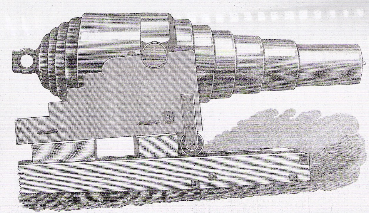 Drawing of a 600 lb Armstrong MLR of 1861. It was the biggest british gun in its time.